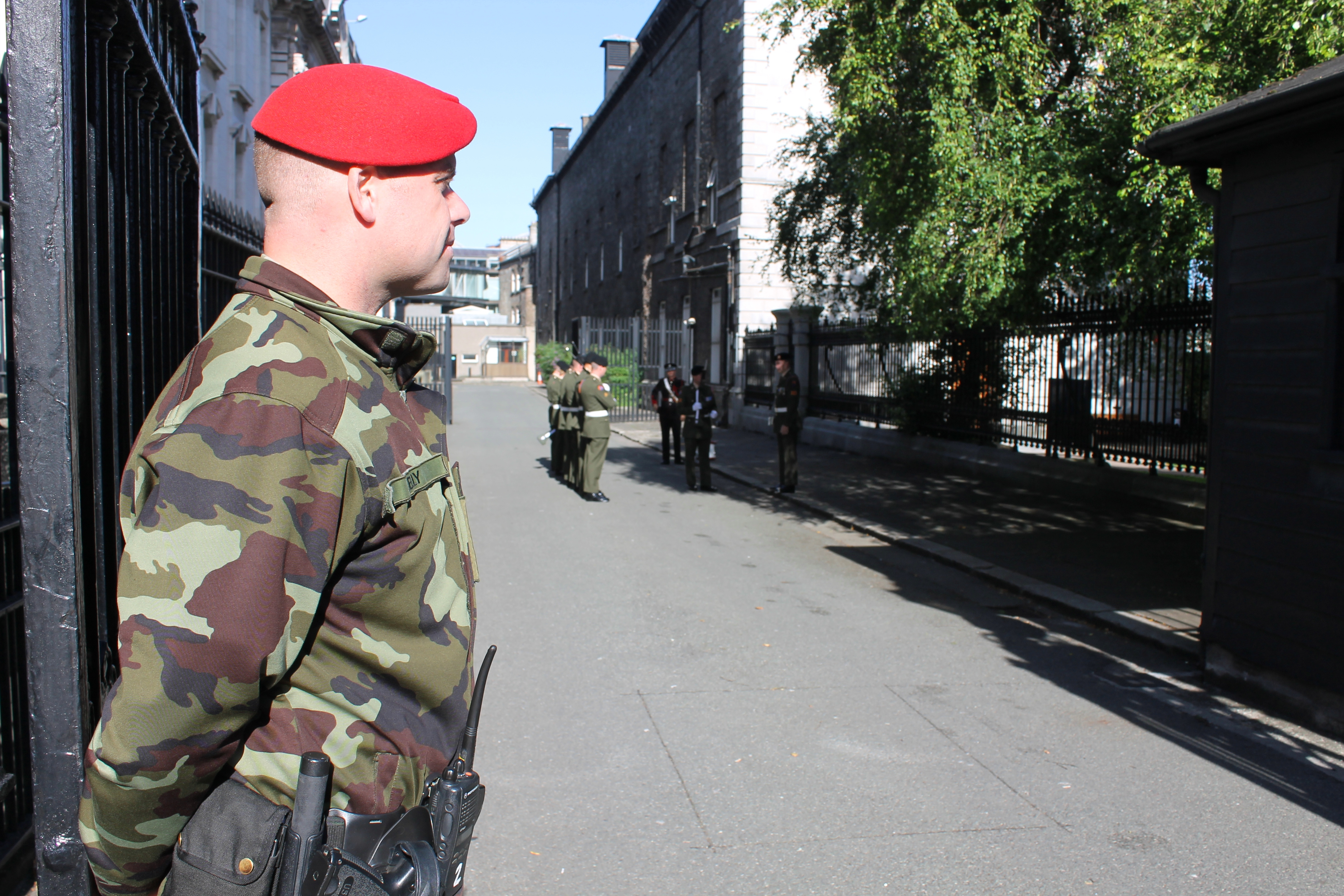 Guard makes final preparations in Government Buildings, in the foreground a military police soldier